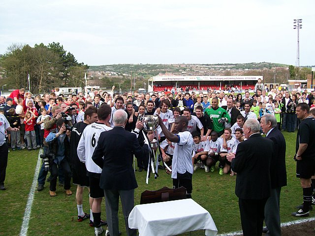 Dover Athletic F.C. receiving the Isthmian League championship trophy on 11 April 2009. Taken by me.